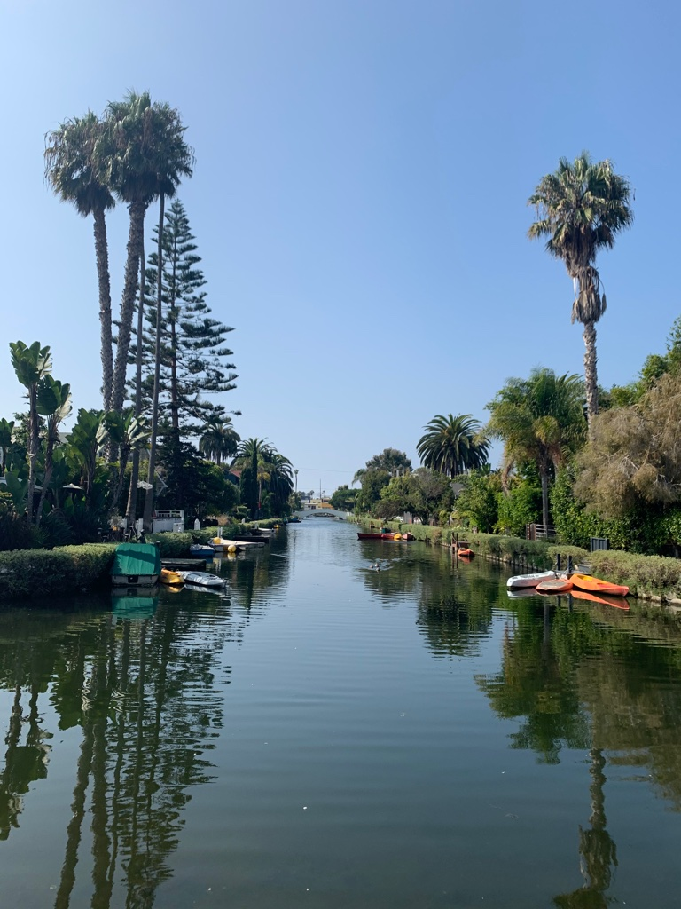 Venice Canals in Los Angeles 2019